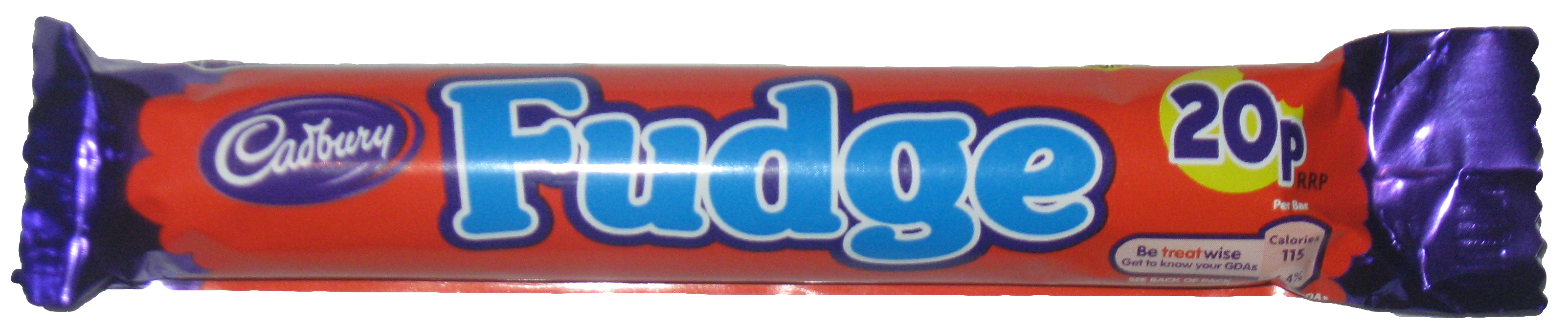 The wrapper for a Cadbury Fudge bar.